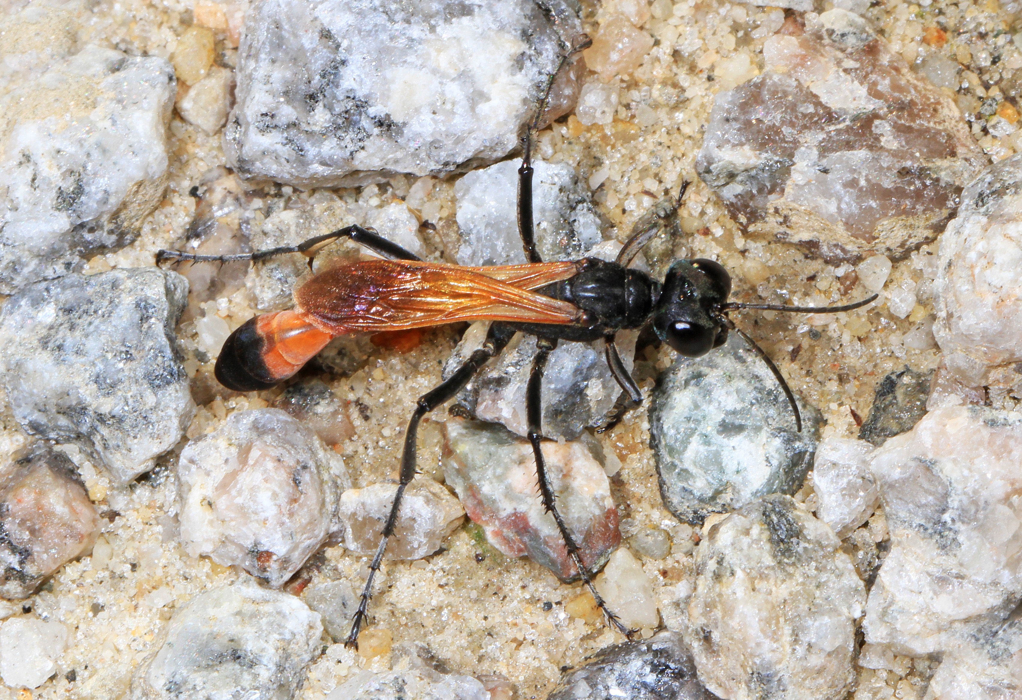 Thread-waisted Wasp - Ammophila pictipennis, Occoquan Bay National Wildlife Refuge, Woodbridge, Virginia